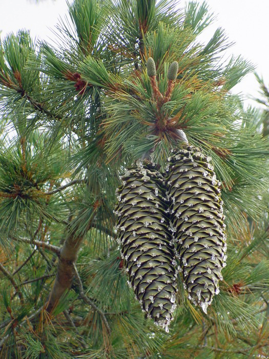 Pinus lambertiana immature and mature seed cones